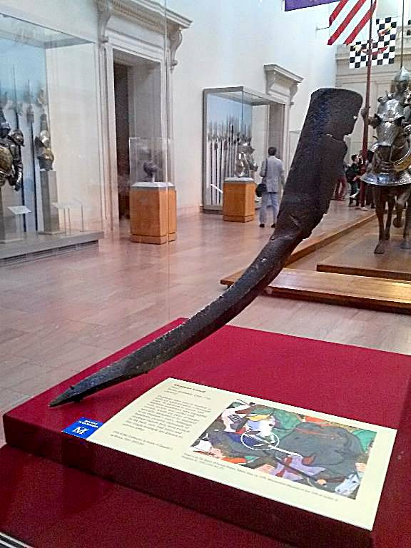 Elephant sword displayed in a raised case at the Metropolitan Museum of Art, New York. India, probably 15th-17th century, iron or steel. Length 2 feet (61.2 cm). Weight 5 pounds, 3 ounces (2.36 kg).